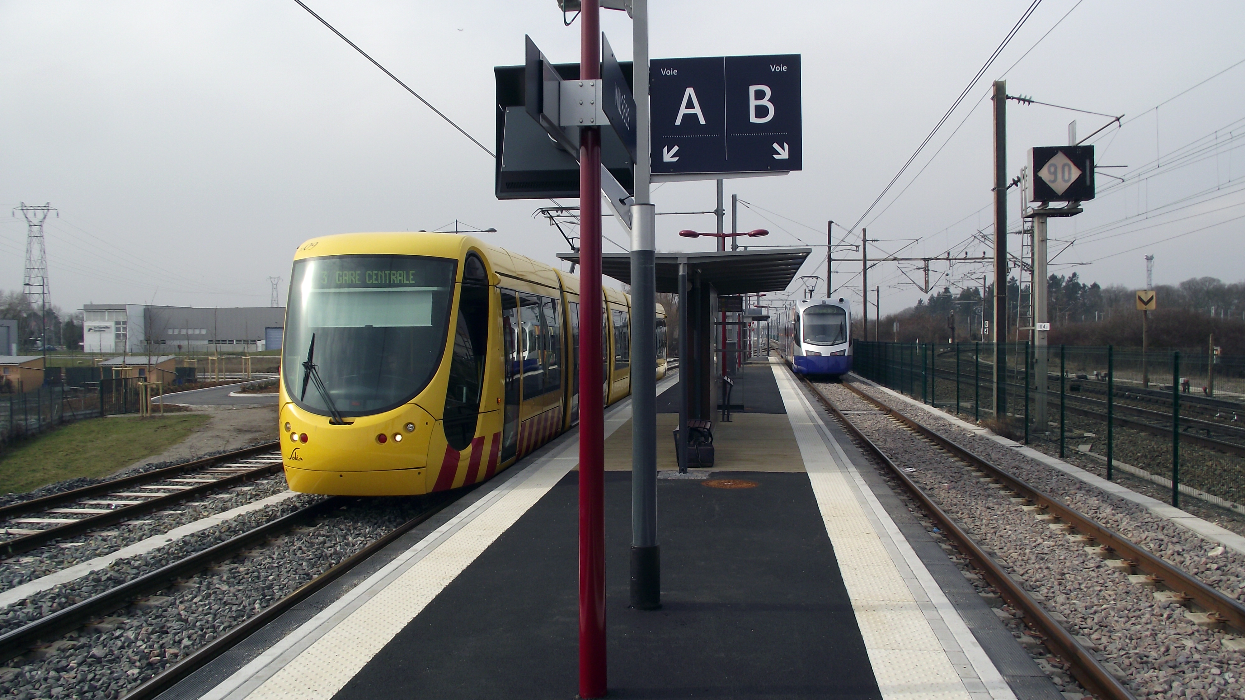 Tram and tramtrain crossing each at the tramstop Mulhouse Musées. The tram is going to the city. At the right the main railway line and at the left the connecting track for the railway museum.